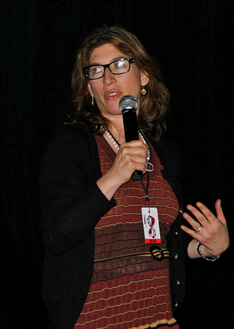 Documentary filmmaker Lauren Greenfield at a screening of her film The Queen of Versailles in Mexico City. Picture by Karloz Byrnison / Ambulante Festival.